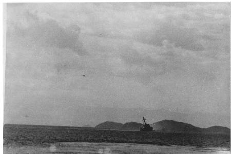 USS Pirate listing to starboard after being hit by a North Korean sea mine on 12 October 1950. viewed from USS Endicott.